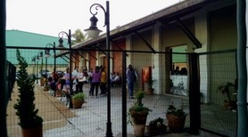 Station Education